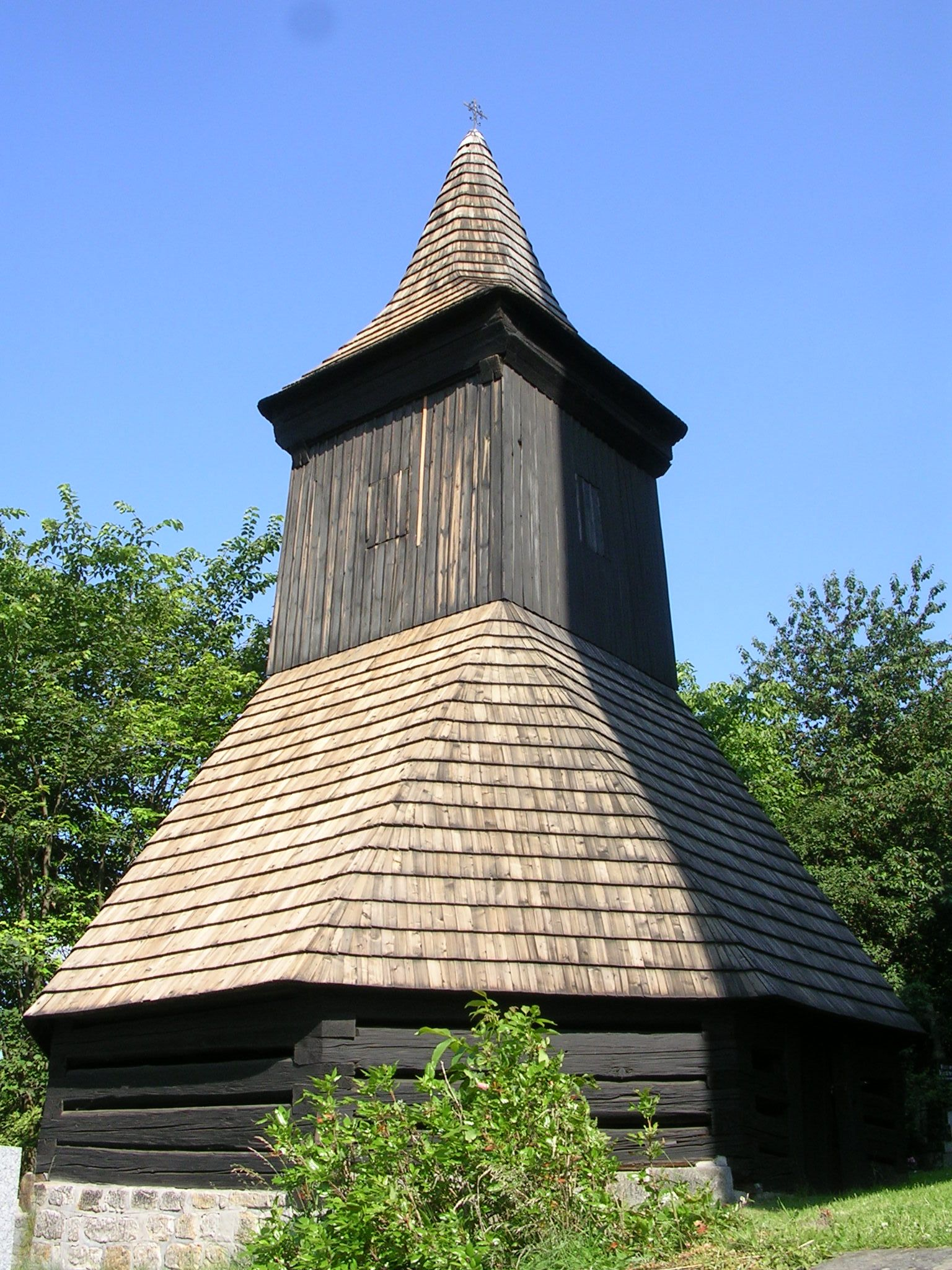 Vyskeř, Semily District, Liberec Region, the Czech Republic. A wooden bell tower near the church of the Assumption.